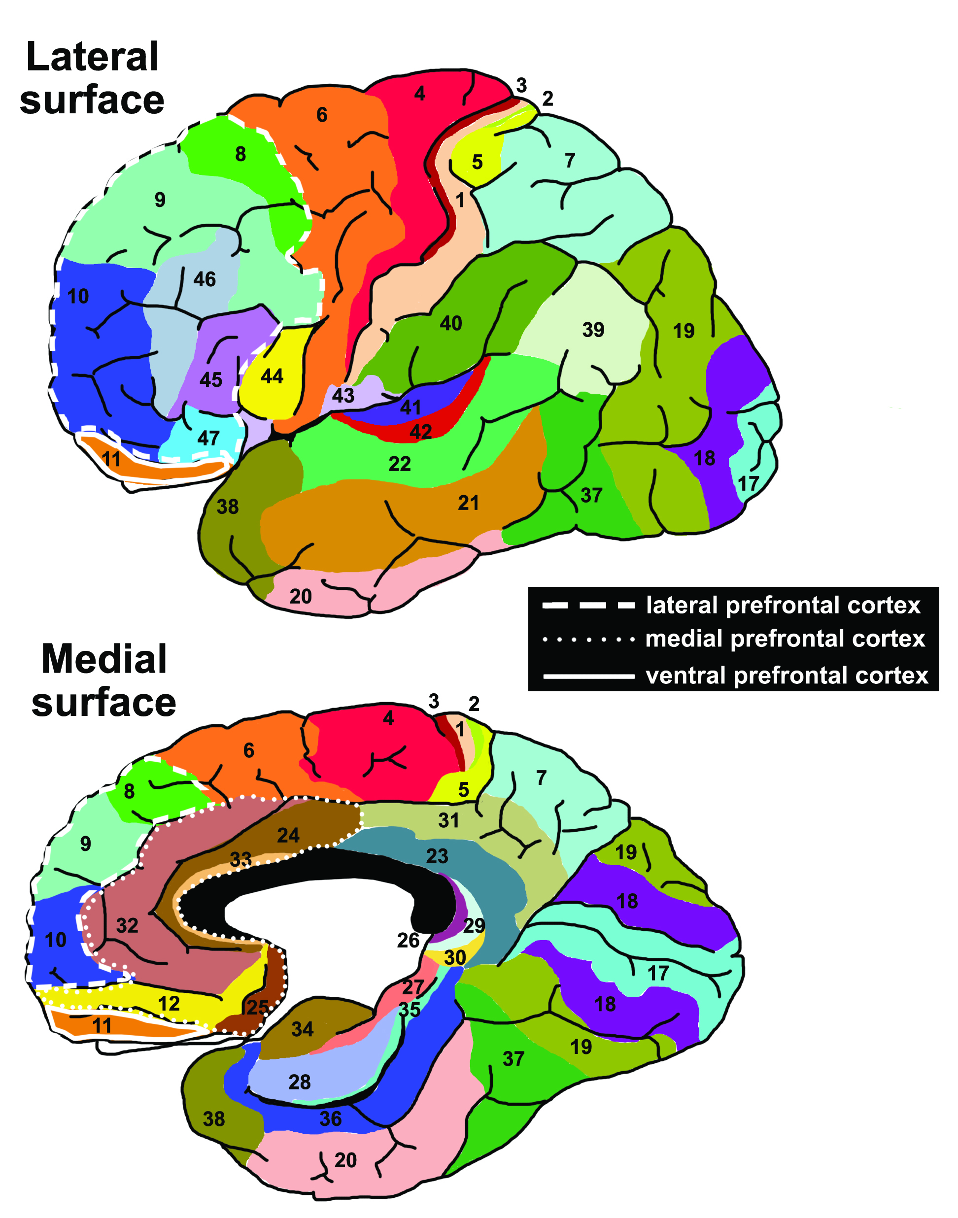 Brodmann areas with the lateral PFC and the ventromedial PFC clearly marked.